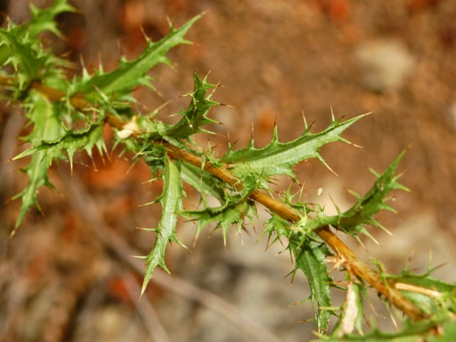 Carlina corymbosa - Genova, Italy